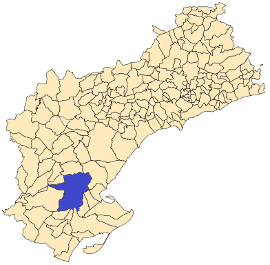 Tortosa